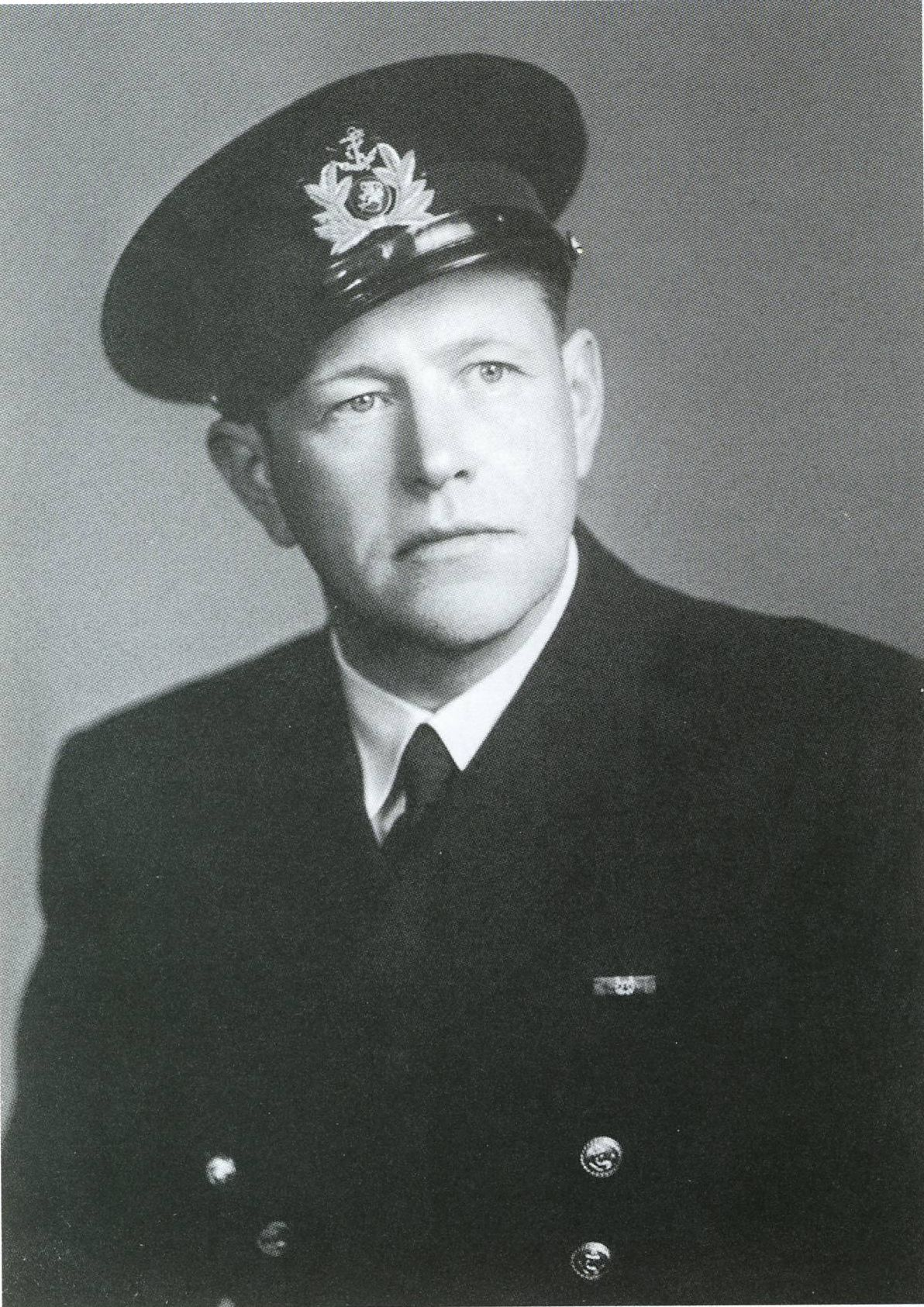 Georg Malmsten, finnish singer.